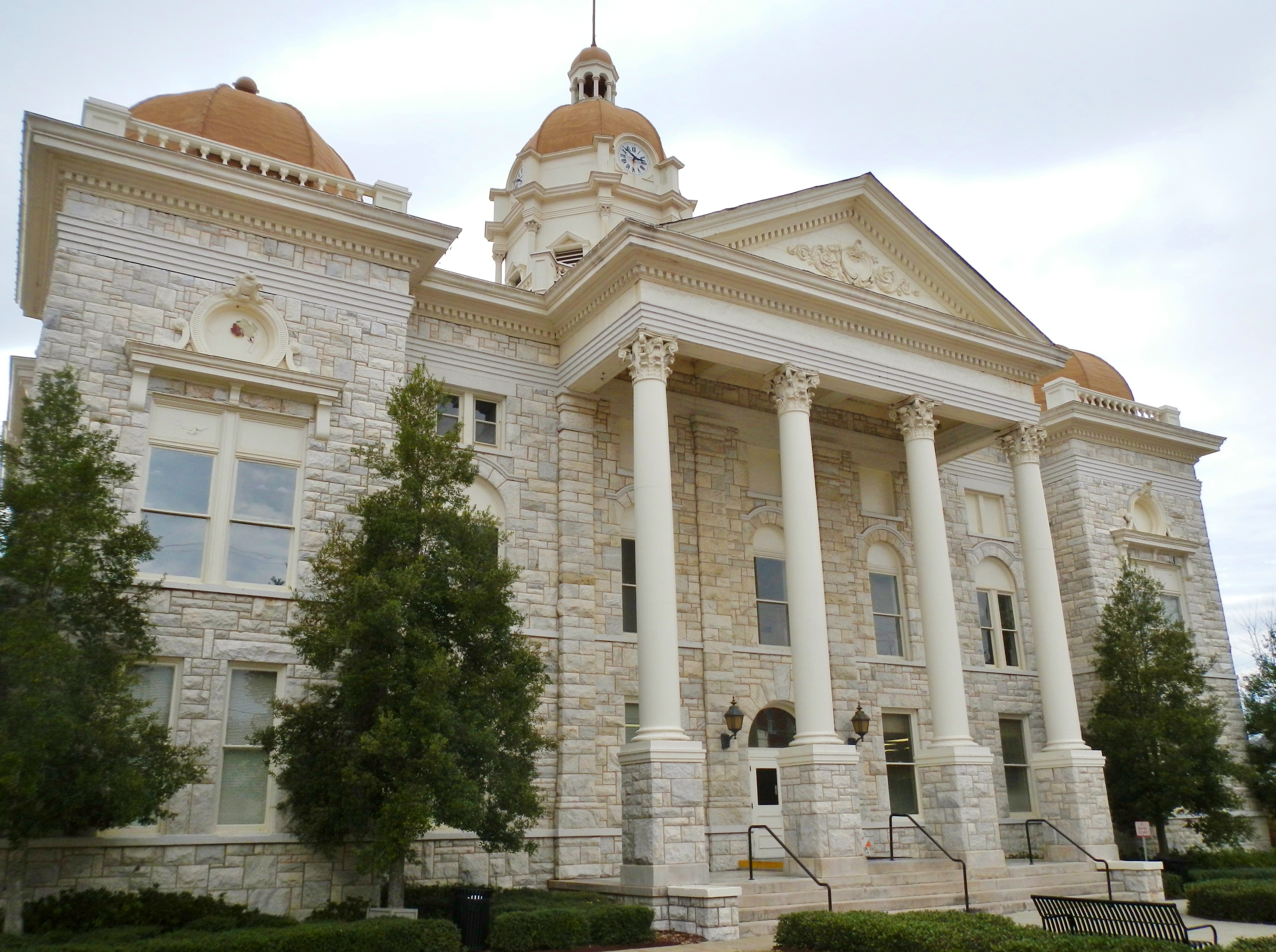 This is a photograph of the Shelby County Courthouse in Columbiana, Alabama.